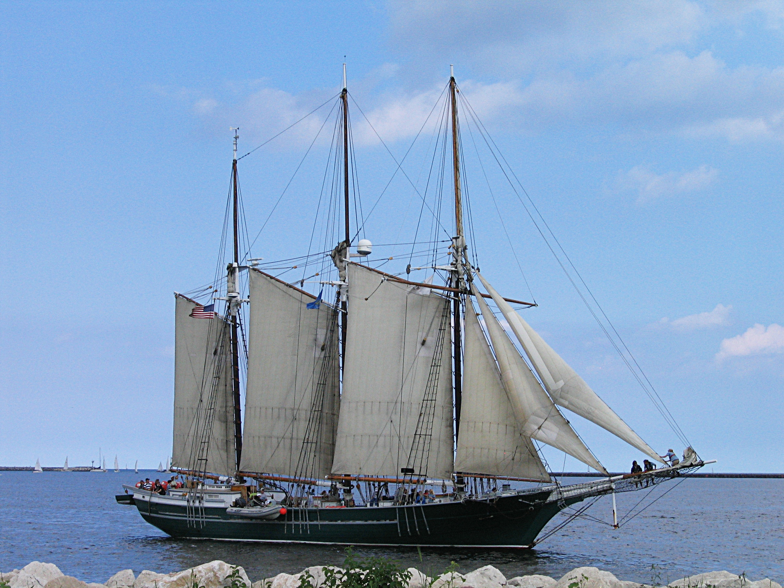 Schooner Denis Sullivan MMSI Number: 338327000 Callsign: WDA2917 Length: 43 m Beam: 8 m